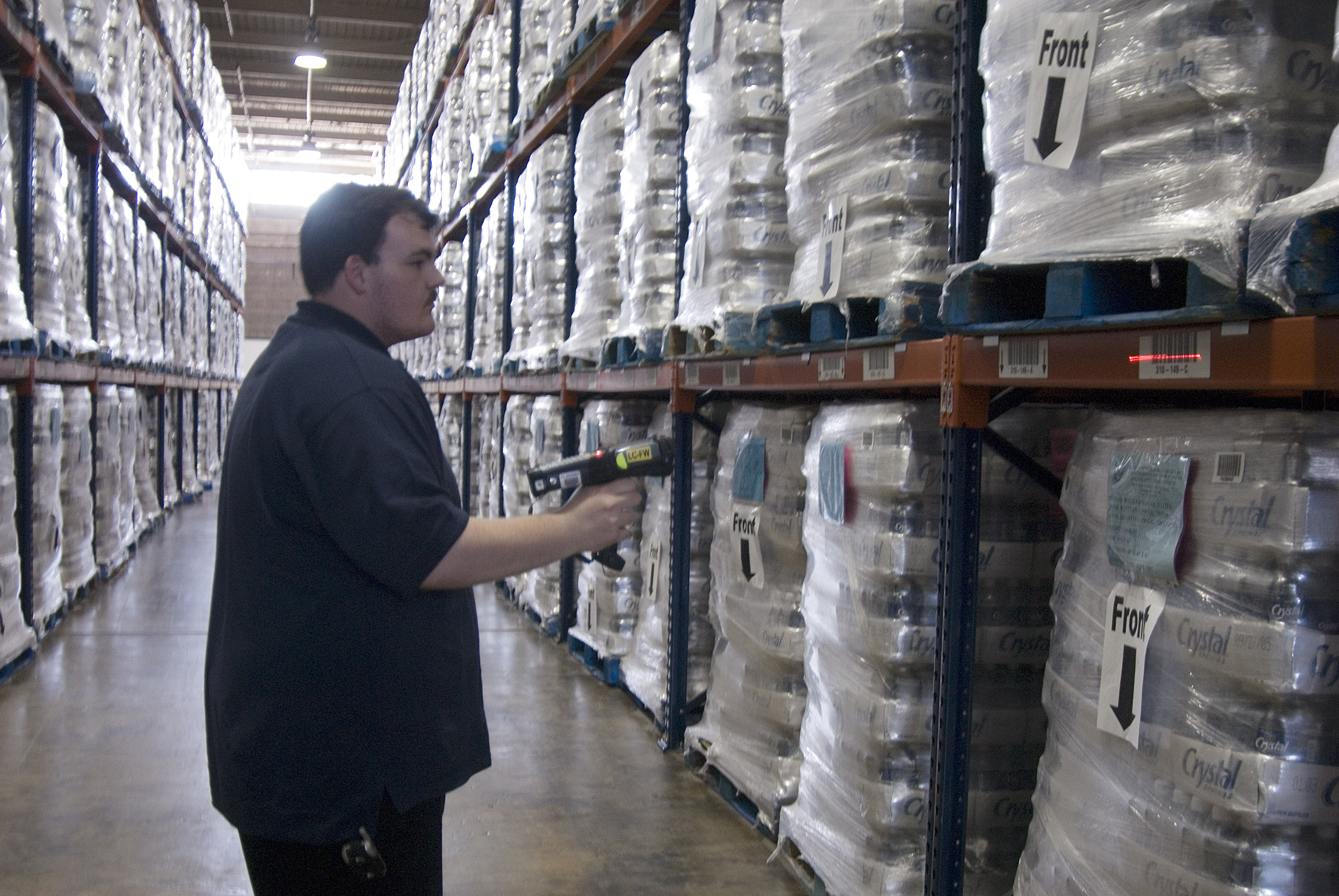 Fort Worth, TX, May 11, 2006 -- A worker in the FEMA Logistics Center warehouse takes inventory with a bar code scanner. This enables GPS tracking of all of the supplies stored here. Photo by: Liz Roll/FEMA